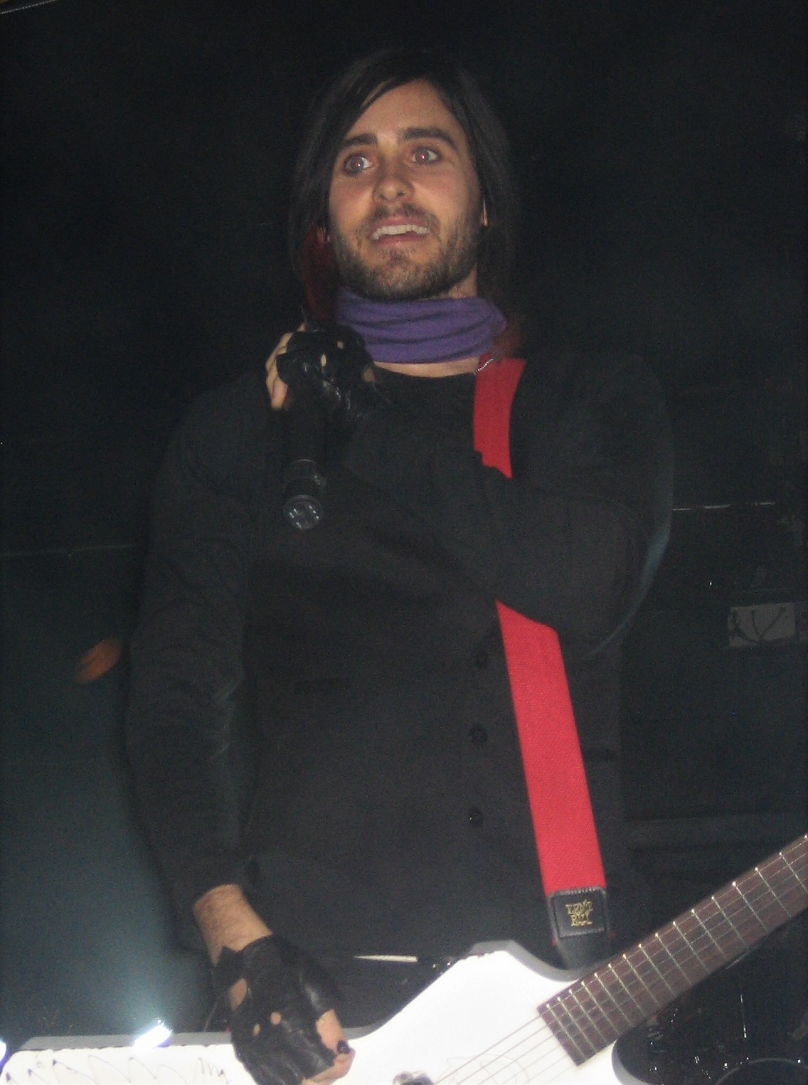 Jared Leto (with Thirty Seconds to Mars) in concert at Amos' Southend in Charlotte, NC